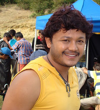 Ganesh Kannada movie star.